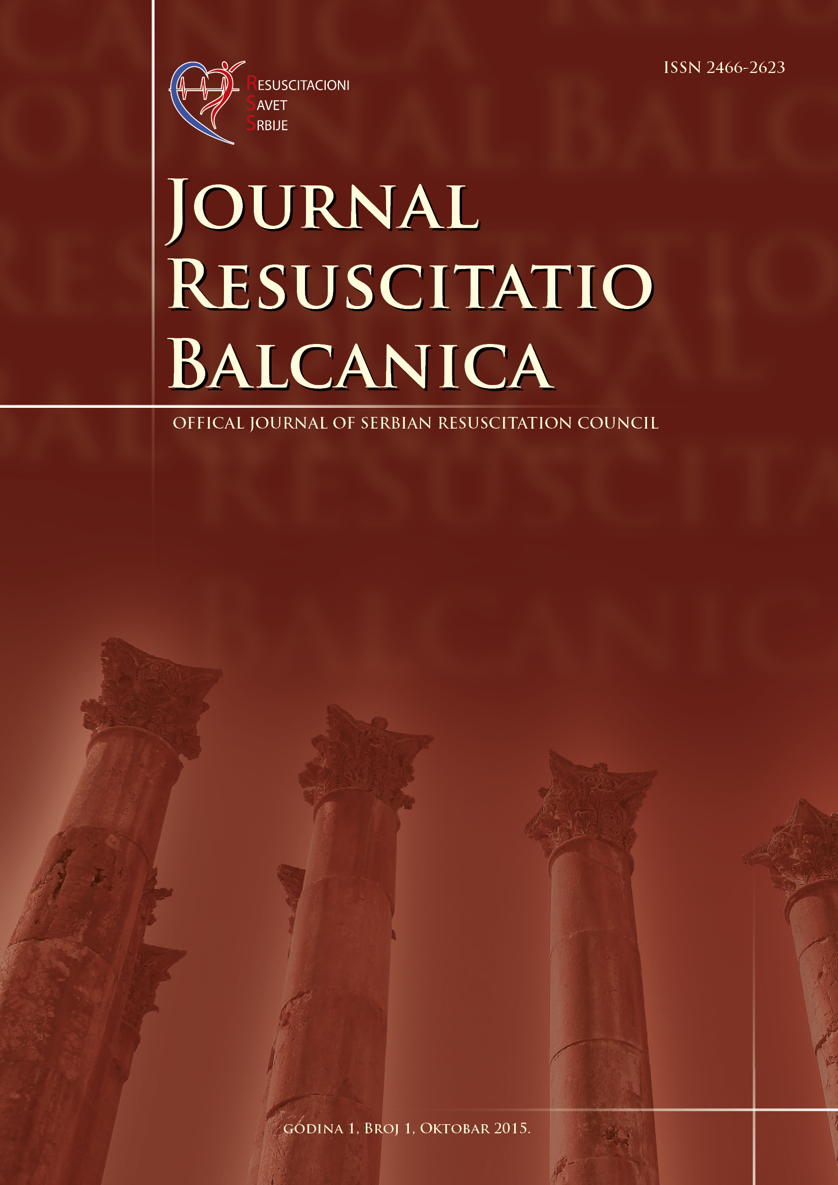 Cover Journal Resuscitatio Balcanica, Number 1, 2015, Serbia